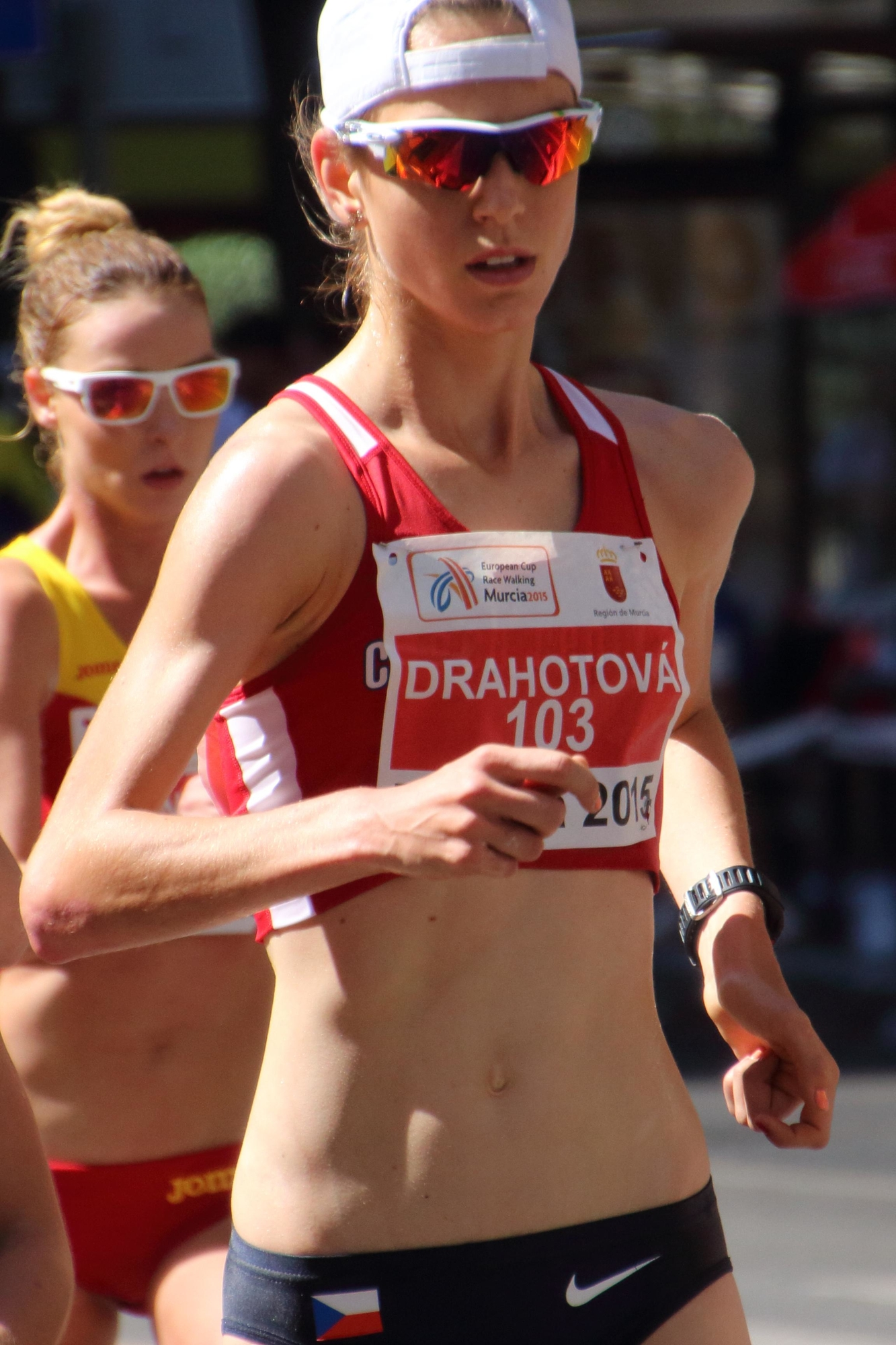 Anežka Drahotová, czech race walker, in the European Cup Race Walking 2015 (Murcia, Spain).